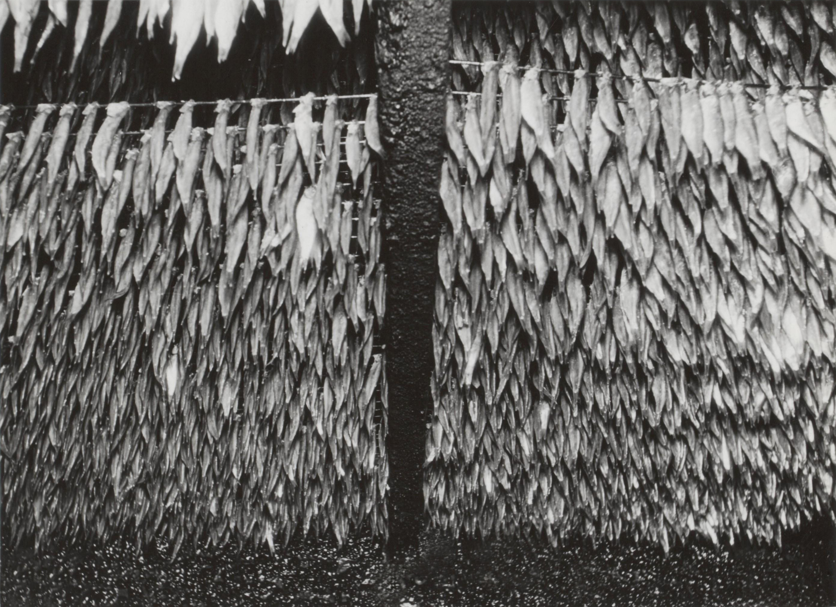 Sprat. Monnickendam (the Netherlands), between 1940 and 1945